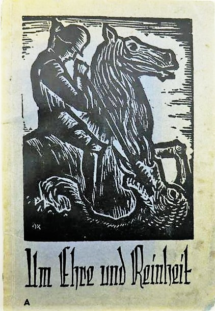 The cover of Kurt Gerstein's booklet „Um Ehre und Reinheit“